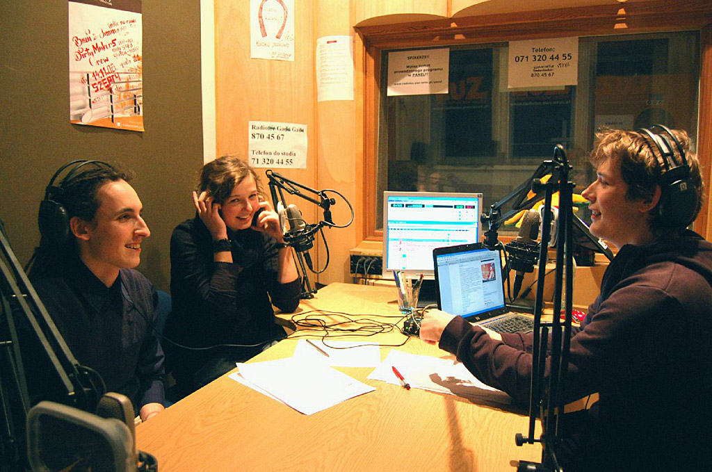 Akademickie Radio LUZ - studio